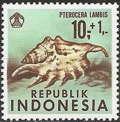 1969 Indonesia stamp showing shell of Pterocera lambis. Pterocera lambis is a synonym of Labis lambis.